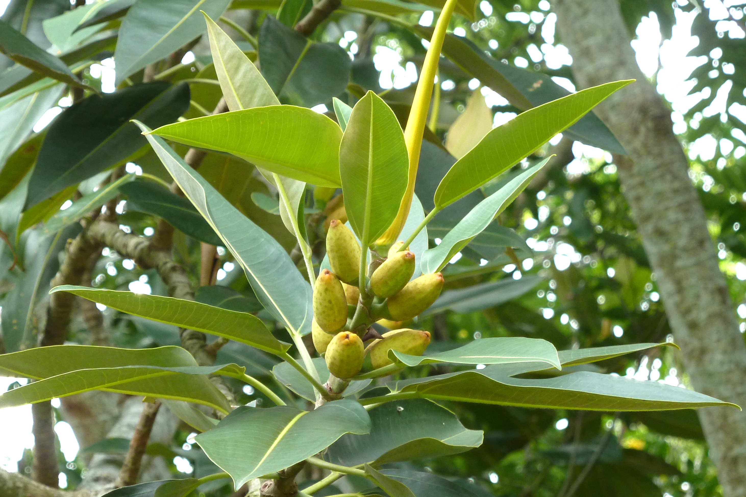 Common name Banana Fig due to the likeness of the fruit to bananas. Family Moraceae, endemic to North-East Queensland tropical forests